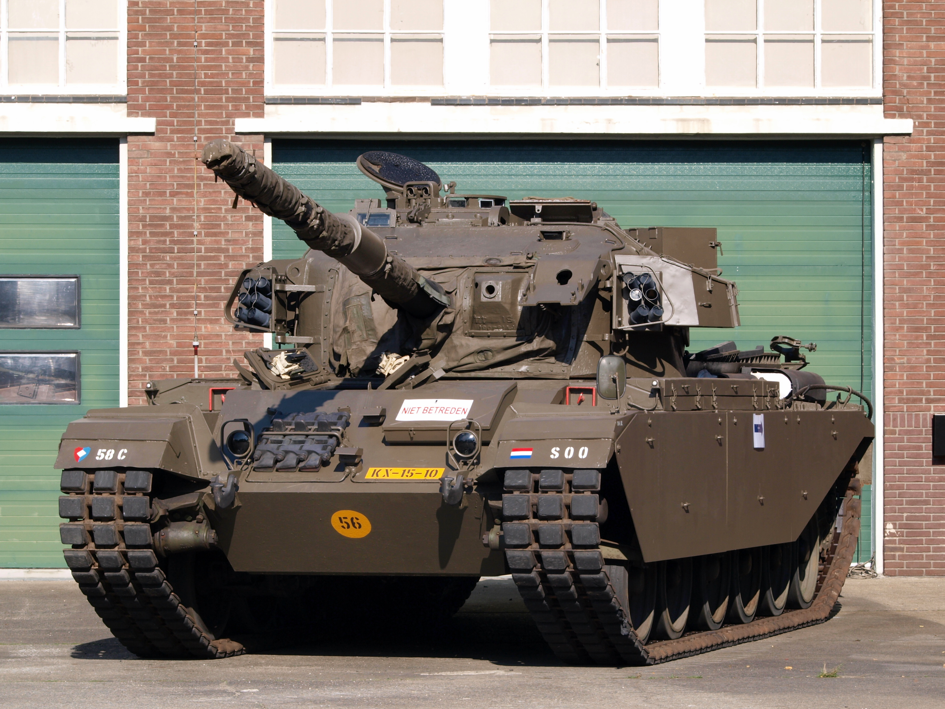 Centurion tank of the Koninklijke Landmacht (Royal Dutch Army) at the Dutch Cavalry Museum.